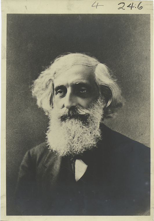 Professor William Chauvenet, from a portrait in the United States Naval Academy, Annapolis, MD